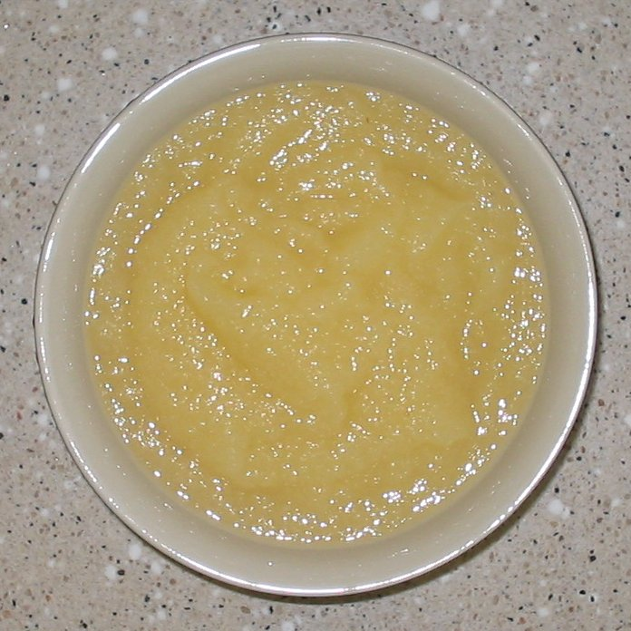 A photograph of applesauce, specifically Musselman's natural unsweetened.